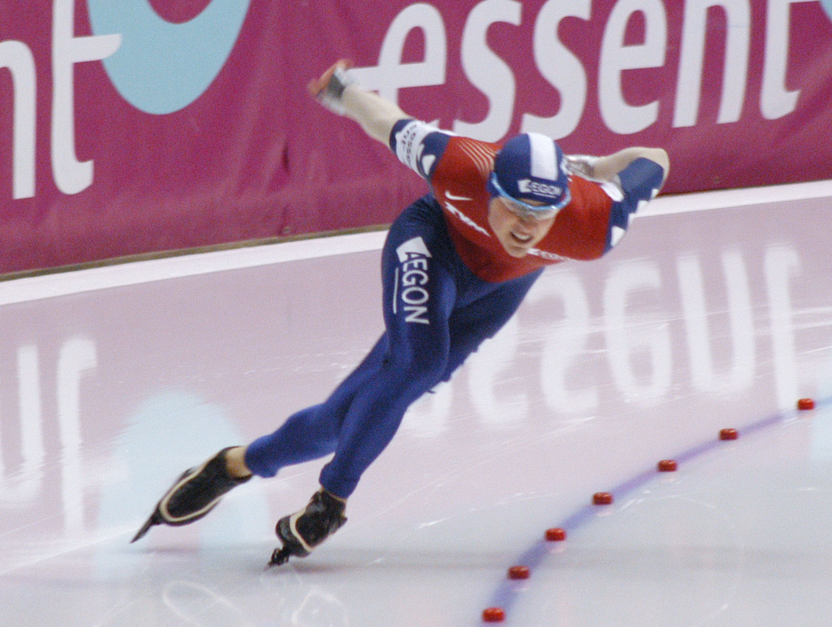 Jan Smeekens (NED) in action at a World Cup Speed Skating in Heerenveen, the Netherlands.